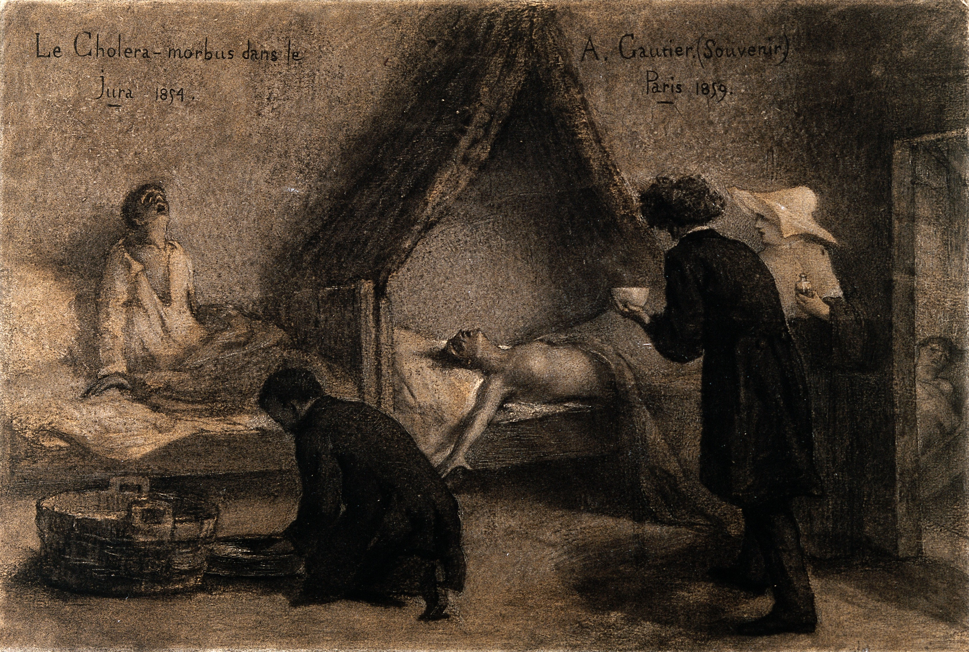 Patients suffering from cholera in the Jura during the 1854 epidemic, with Dr Gachet attending them. Pencil drawing by A. Gautier, 1859. Iconographic Collections Keywords: Amand-Désiré Gautier; Paul-Ferdinand Gachet